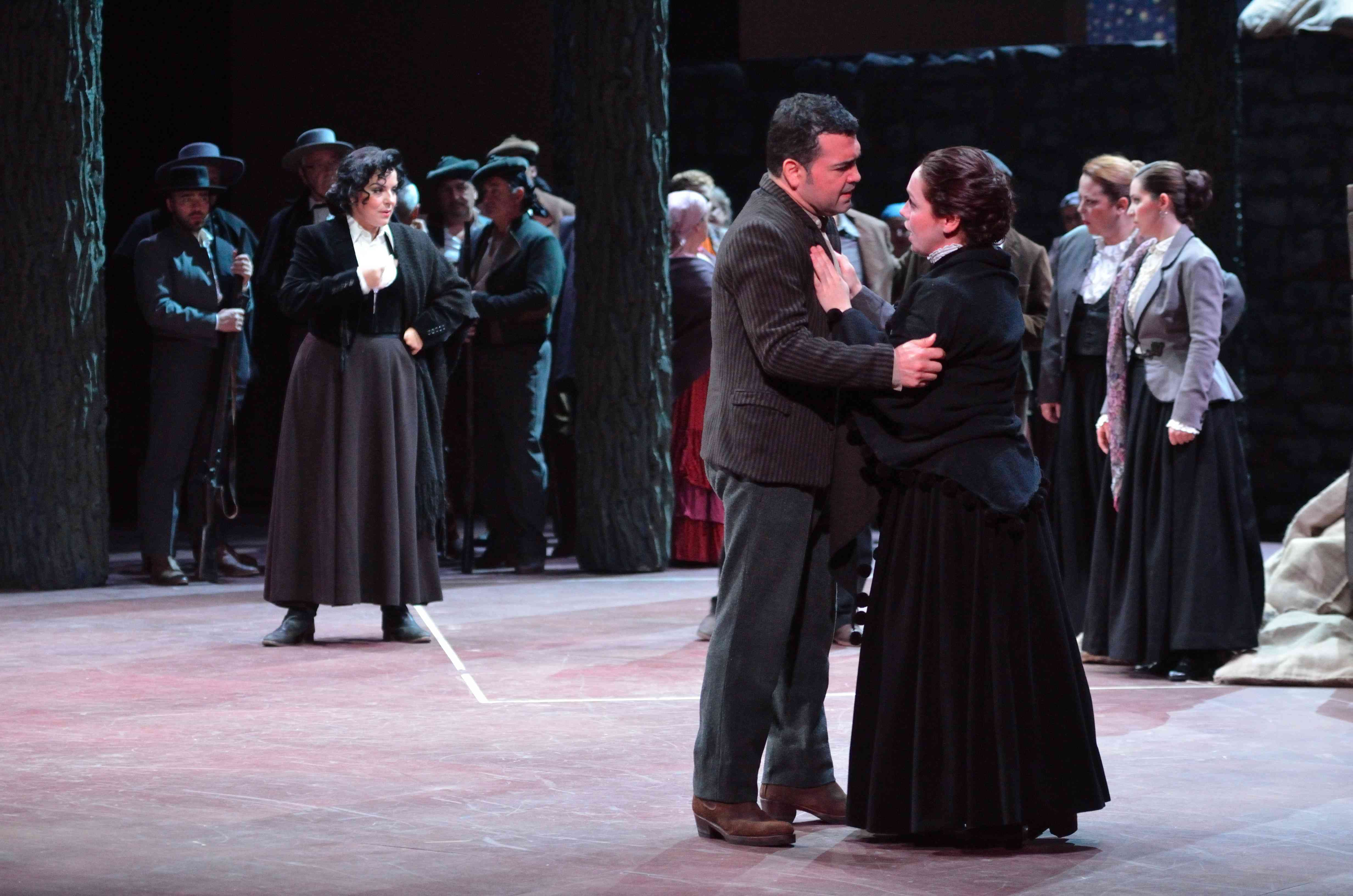 Aquiles Machado - Segundo acto de la ópera "Carmen" de G. Bizet Intérpretes: Carmen: Nancy Fabiola Herrera - Don José: Aquiles Machado - Micaela: Beatriz Díaz Dirección Escénica: Mario Pontiggia - Dirección Musical: Alain Guingal - Producción: Amigos Canarios de la Ópera - Teatro Pérez Galdós - Las Palmas de Gran Canaria 2012